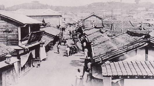 Honcho in Gishu(Uiju)